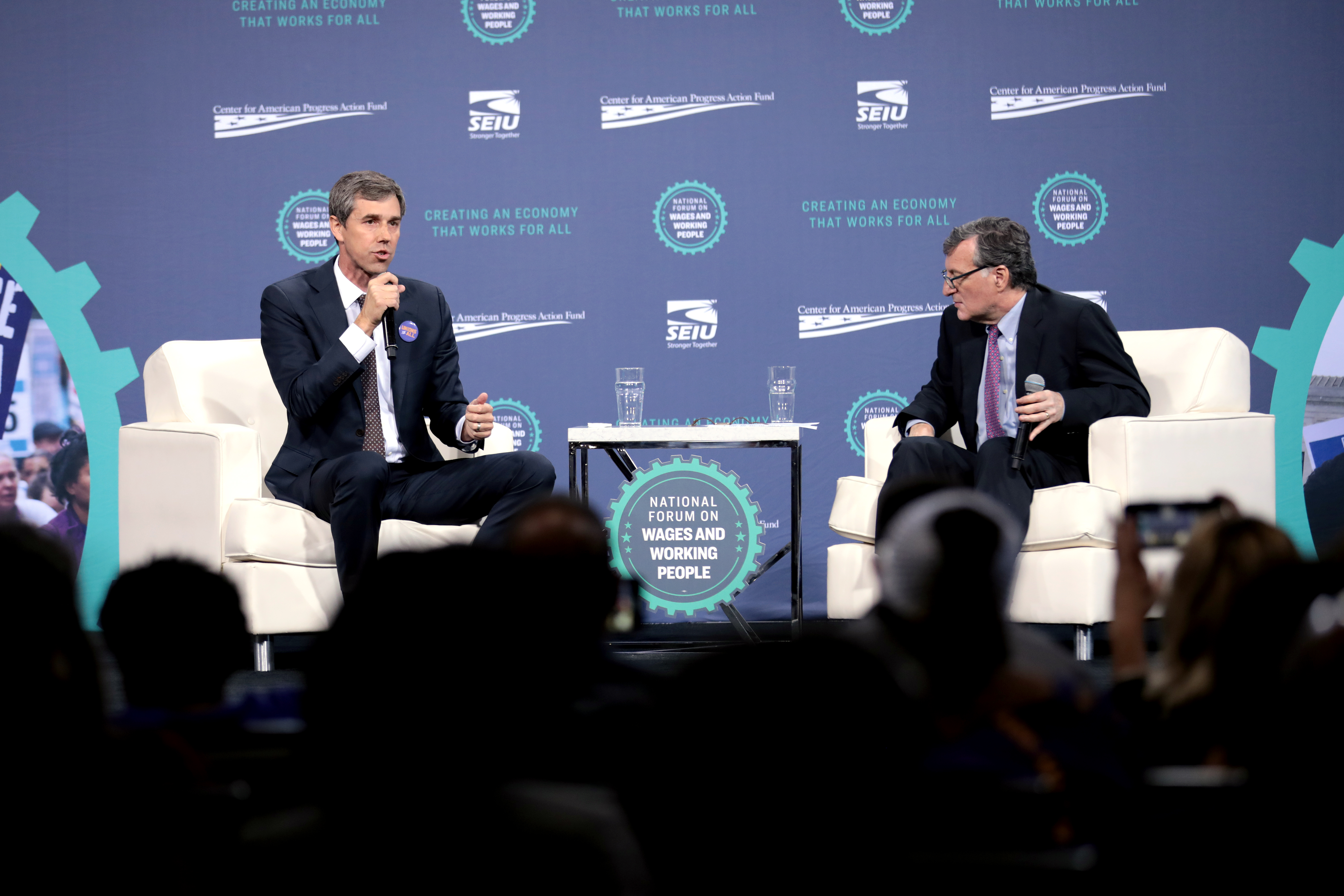 Former U.S. Congressman Beto O'Rourke and Steve Greenhouse speaking with attendees at the 2019 National Forum on Wages and Working People hosted by the Center for the American Progress Action Fund and the SEIU at the Enclave in Las Vegas, Nevada.